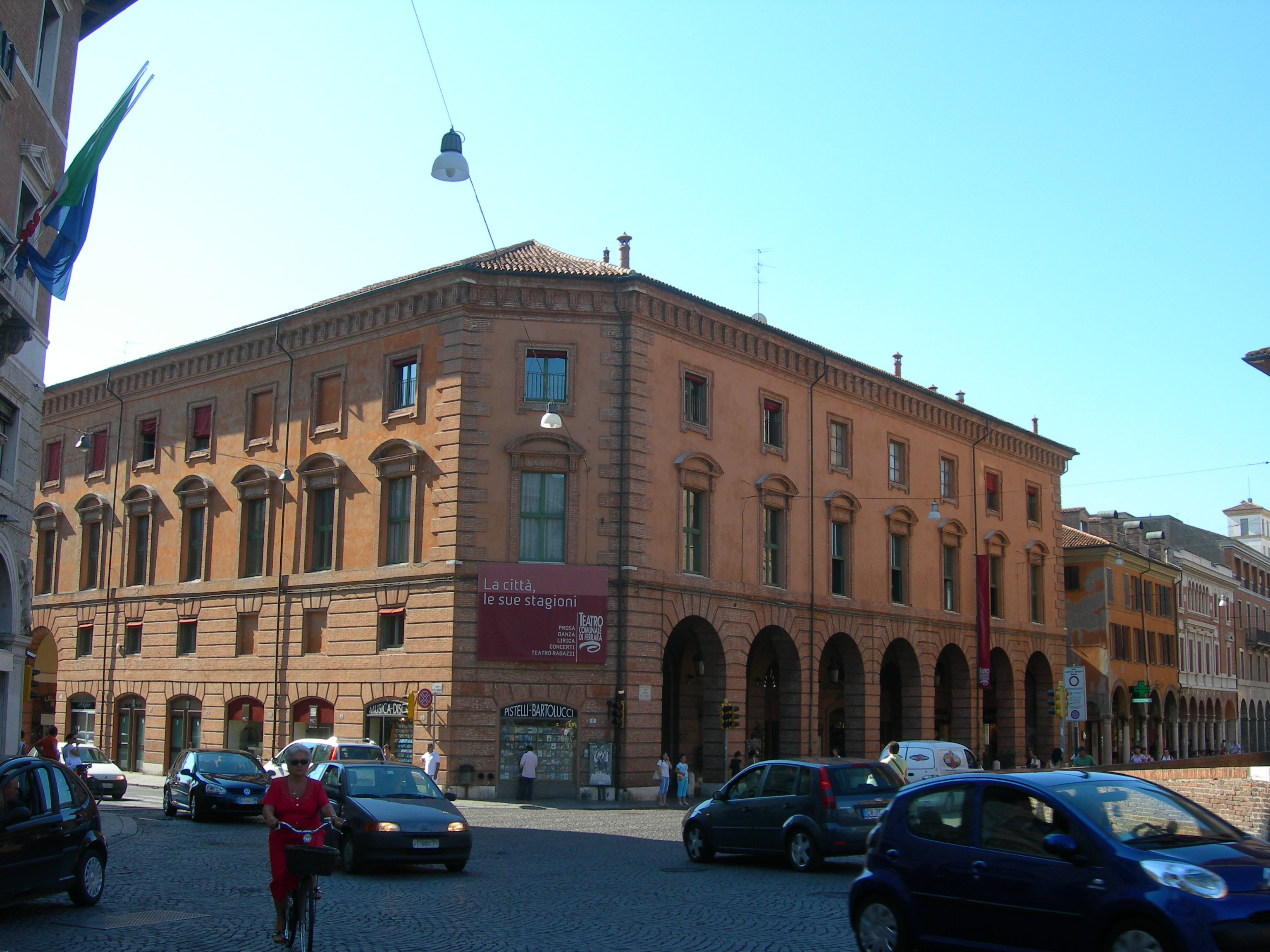 Comunale Theatre Facade